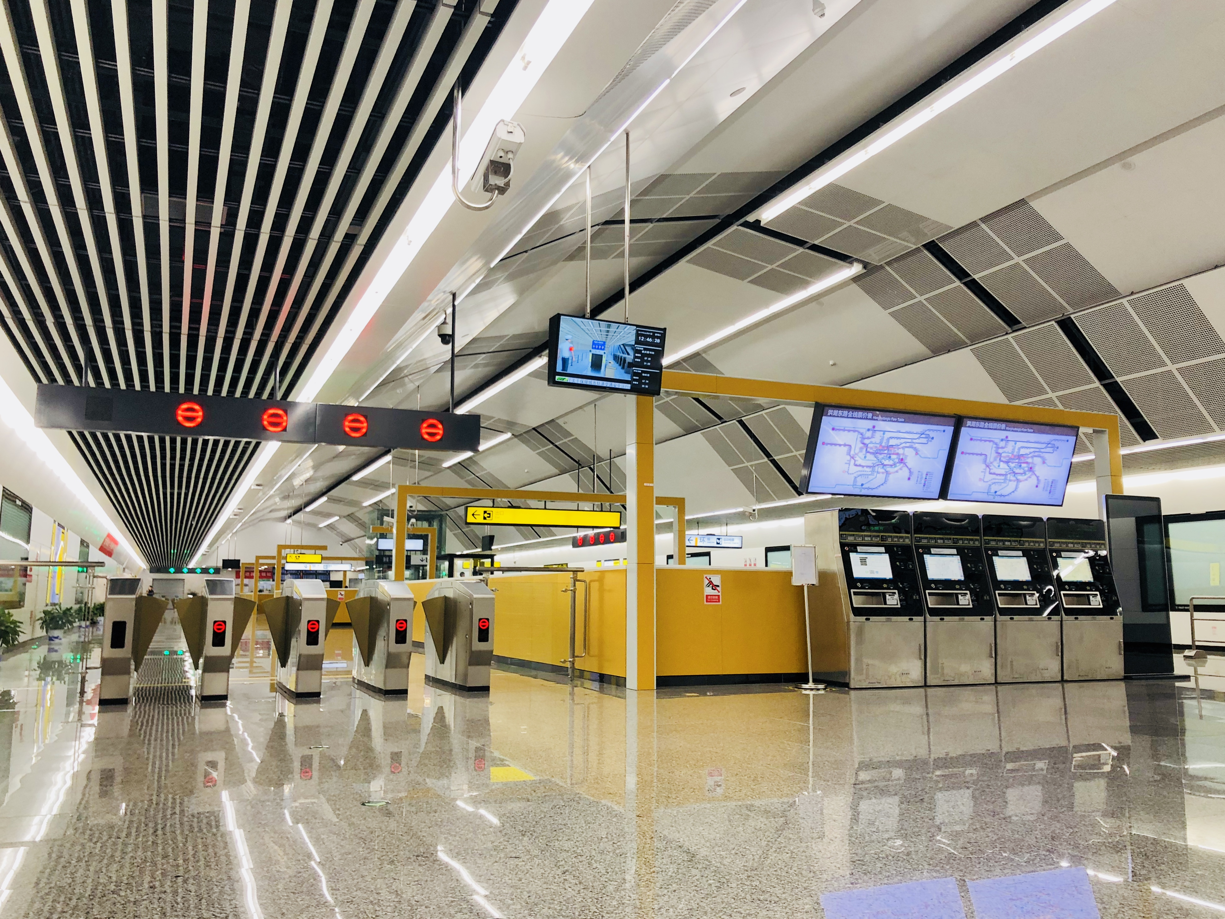 Concourse for Honghudonglu station, ametro station on the Loop Line of Chongqing Rail Transit in Chongqing, China